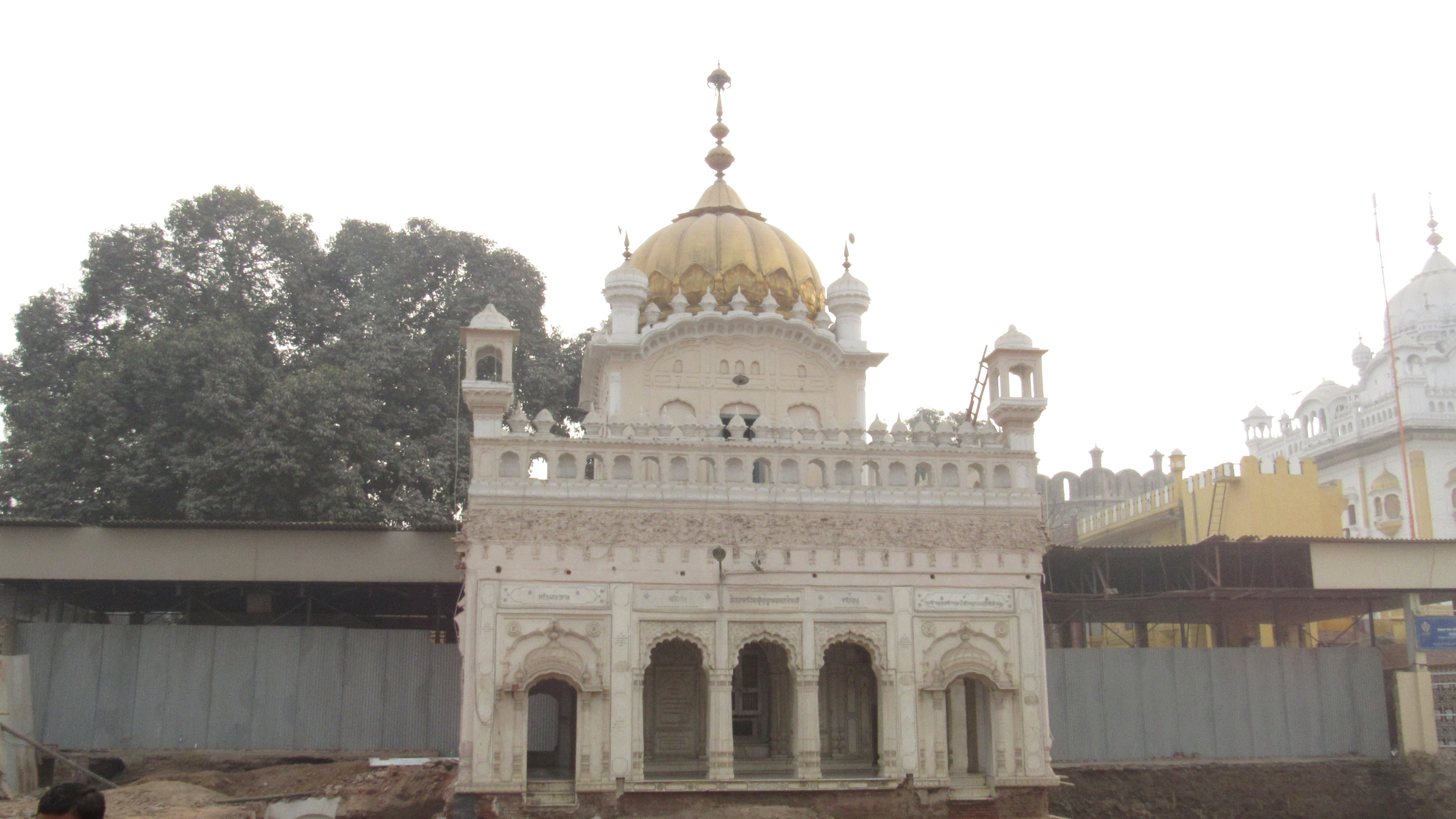 Samadhi of Ranjit Singh in Lahore, Pakistan This is a photo of a monument in Pakistan identified as the PB-79